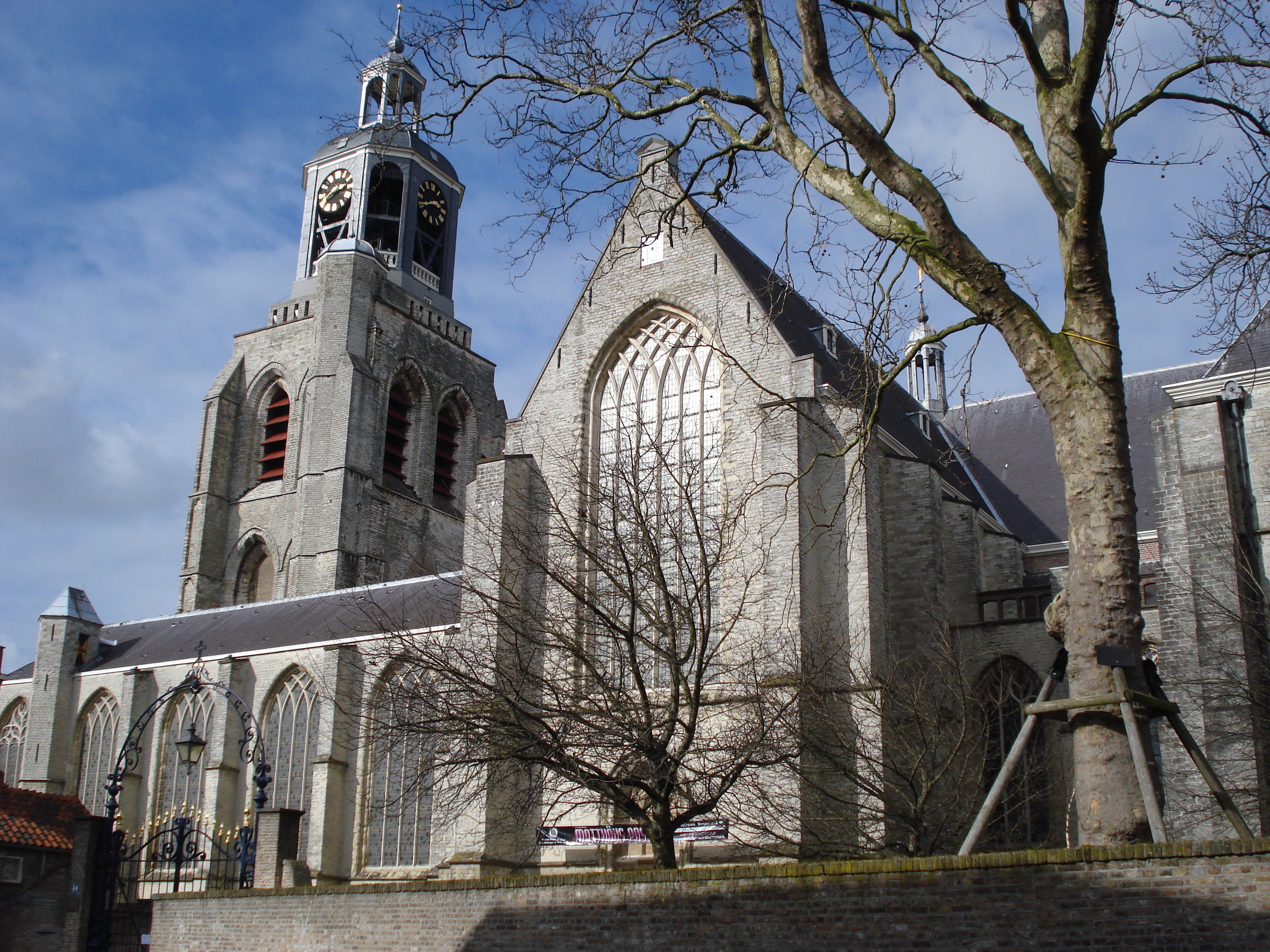 Bergen op Zoom Gertrudiskerk sideview